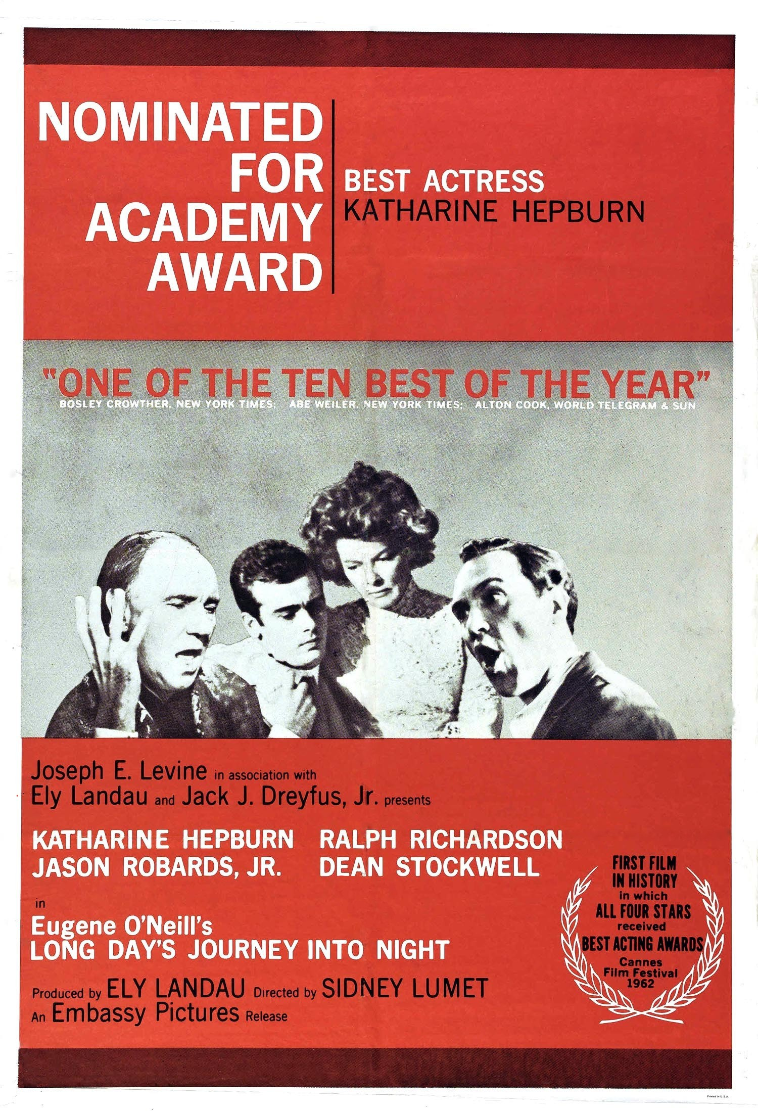 Poster for award winning film Long Day's Journey into Night (1962)